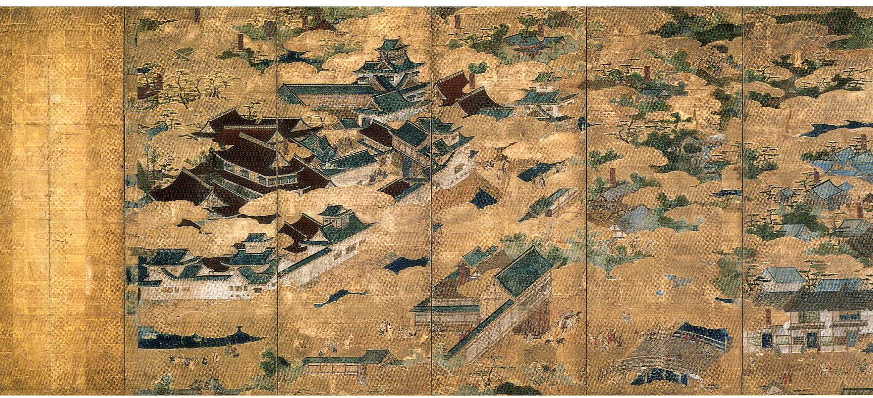 “Juraku-dai Byōbu-zu”. Folding screen painting of the Jurakudai palace. It was constructed at the order of Toyotomi Hideyoshi in Kyoto. It was located in present-day Kamigyō, Kyoto. In this folding screen, the castle tower has a height of four or more layers. The walls of the Azuchi-Momoyama era are black walls painted with black lacquer in both Azuchi Castle and Osaka Castle, but this folding screen has a white wall. The lower left of the castle tower is thought to be a well in the rainy season that remains as the rare remains of Juraku Dai-ichi. Wells are also drawn.